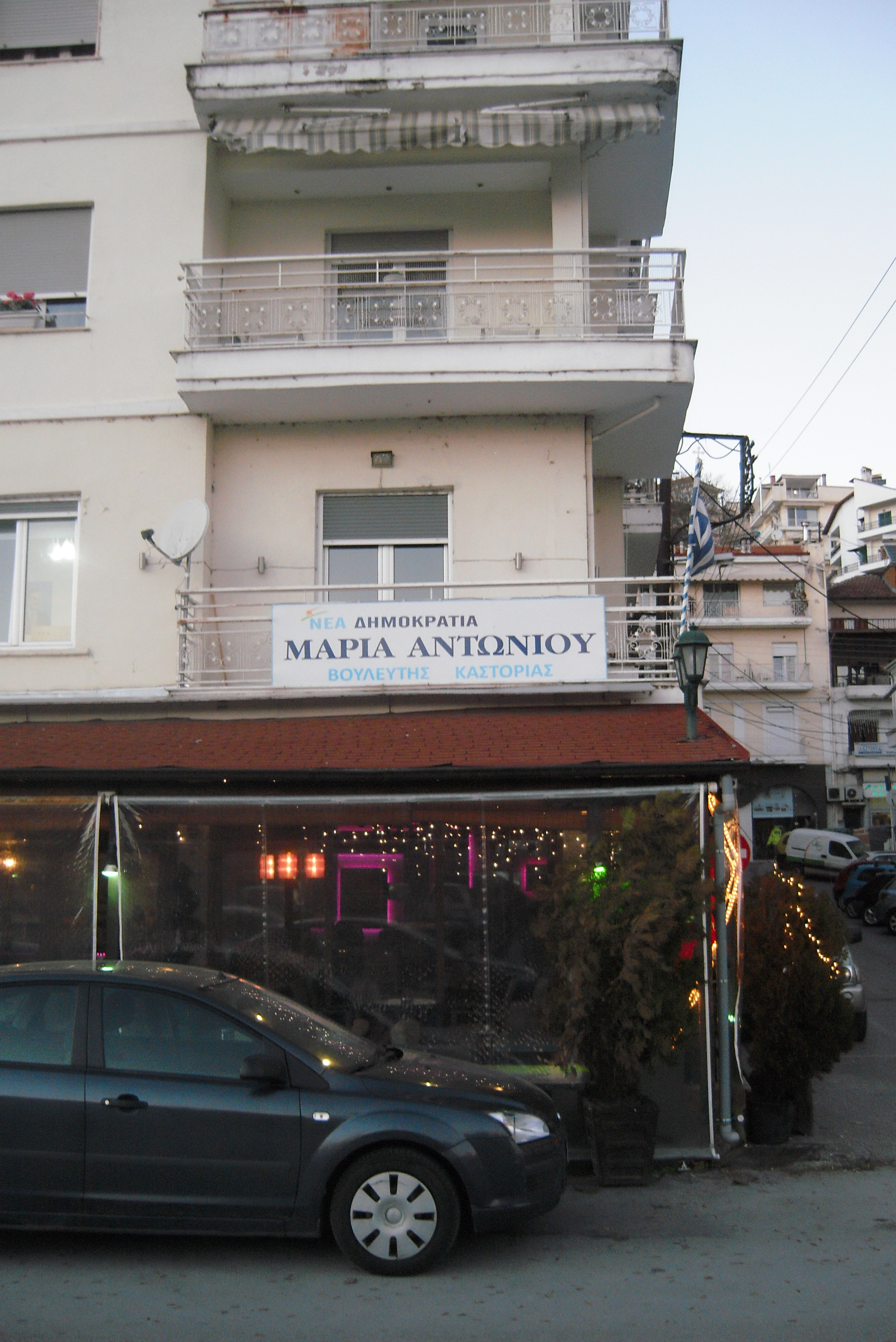 Maria Antoniou Office in Kastoria